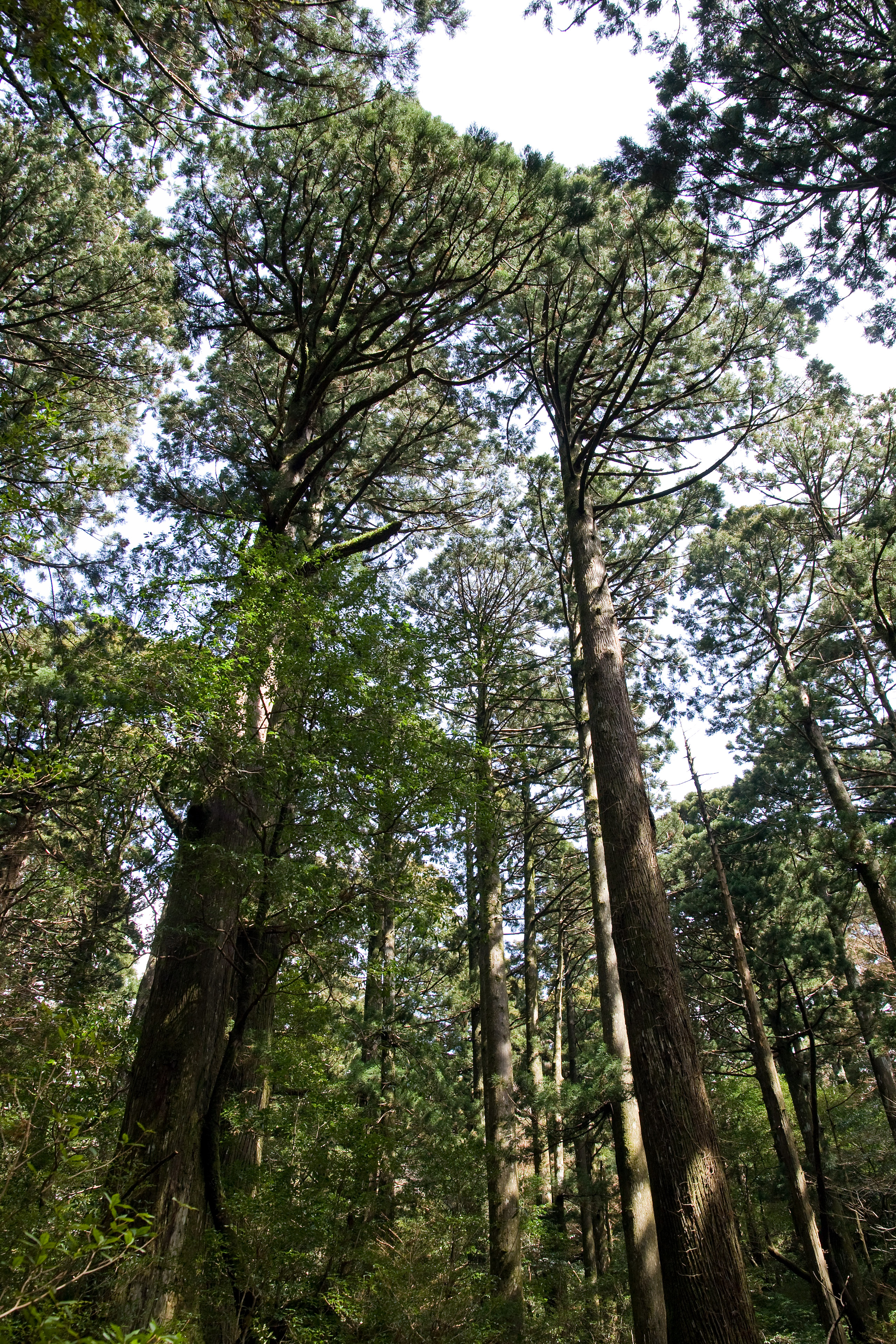 Sugi Cryptomeria japonica forest in Yakushima, Kagoshima Pref., Japan.